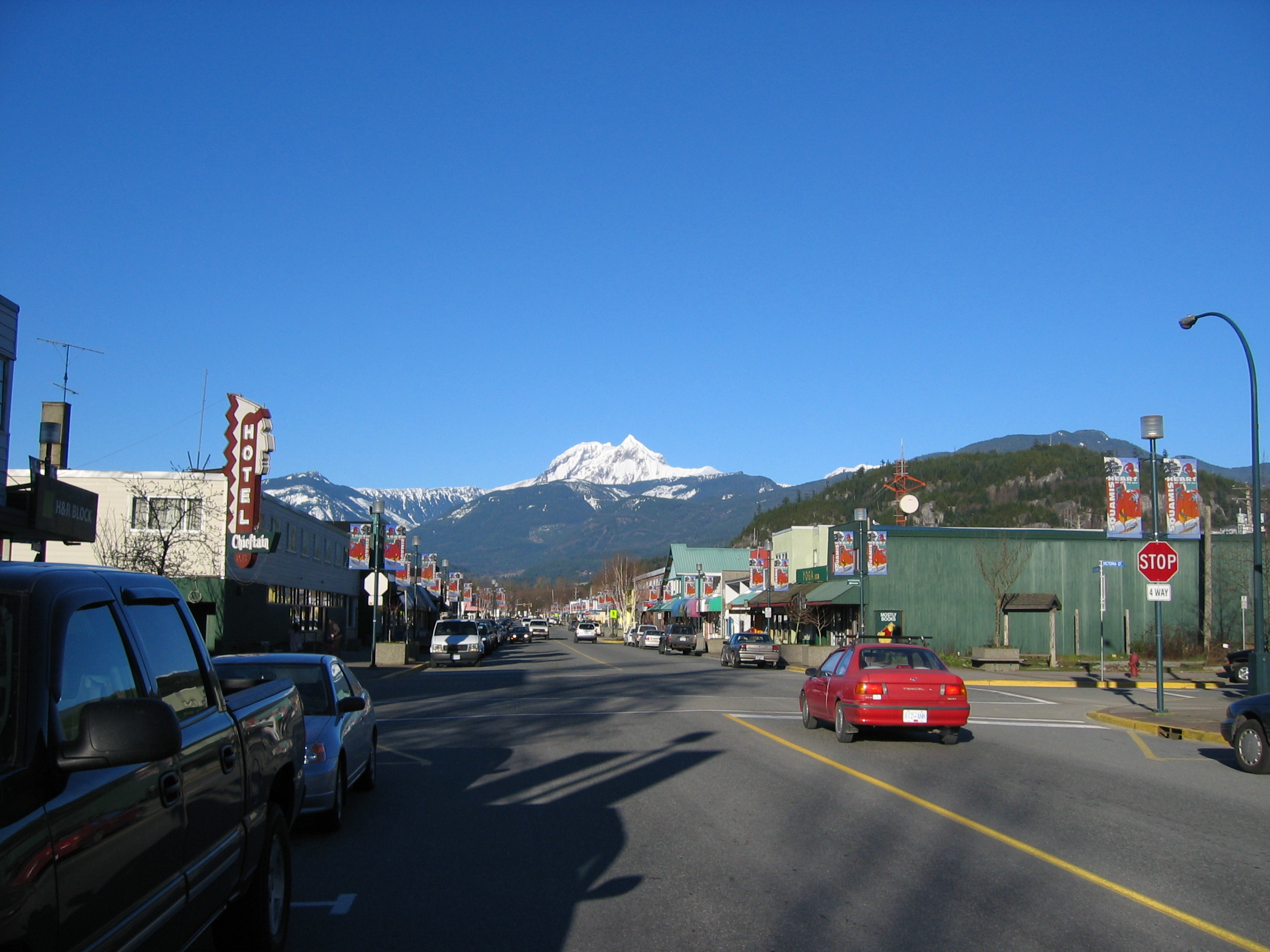 Squamish main street taken by Jess LaFramboise.